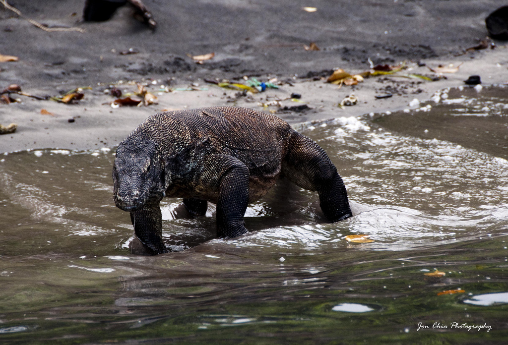 The brute, Komodo Dragon in on Komodo NPLocation: Komodo National Park